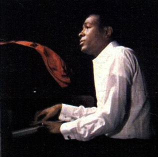 Photo of Marvin Gaye.